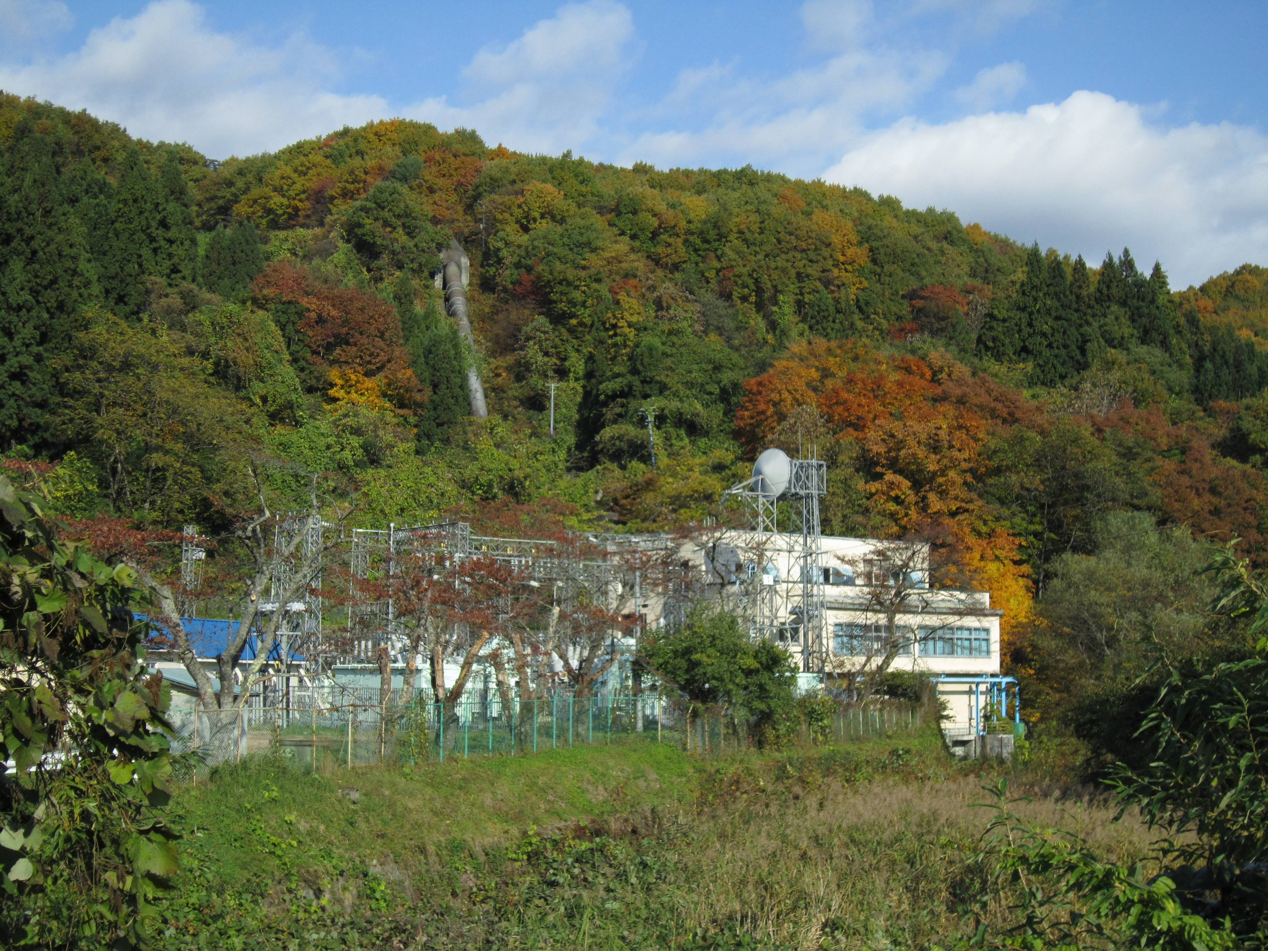 Isawa I power station.